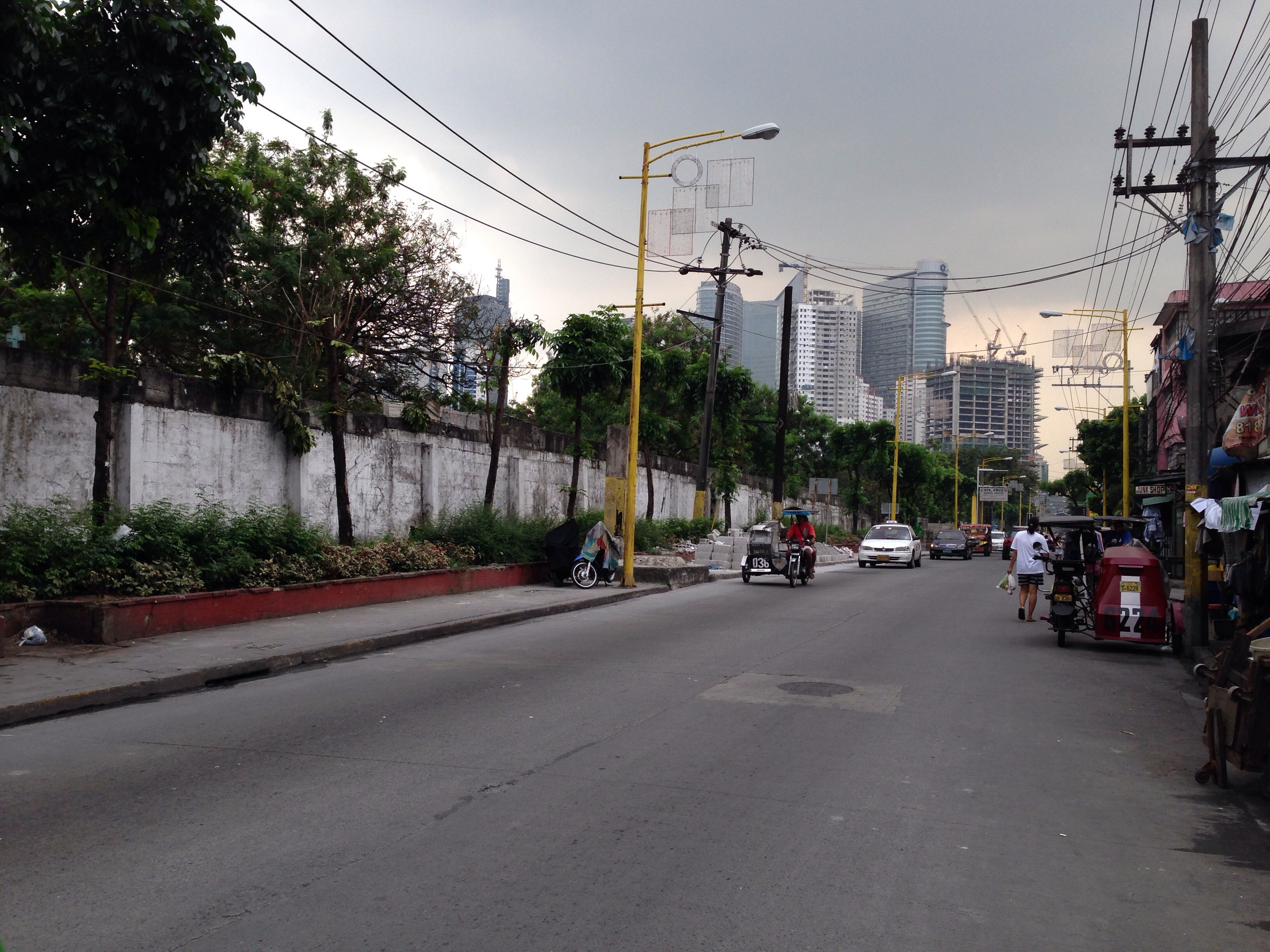 The Manila South Cemetery on South Avenue, Makati